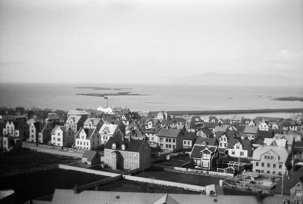 View of Reykjavik and Faxa bay from the Catholic Cathedral. Utsikt över Reykjavik och Faxafjärden från Katolska domkyrkan. Location: Reykjavík, Iceland, Ísland Photograph by: Berit Wallenberg Date: 01.07.1930 Format: Film Persistent URL: Read more about the photo database (in english)